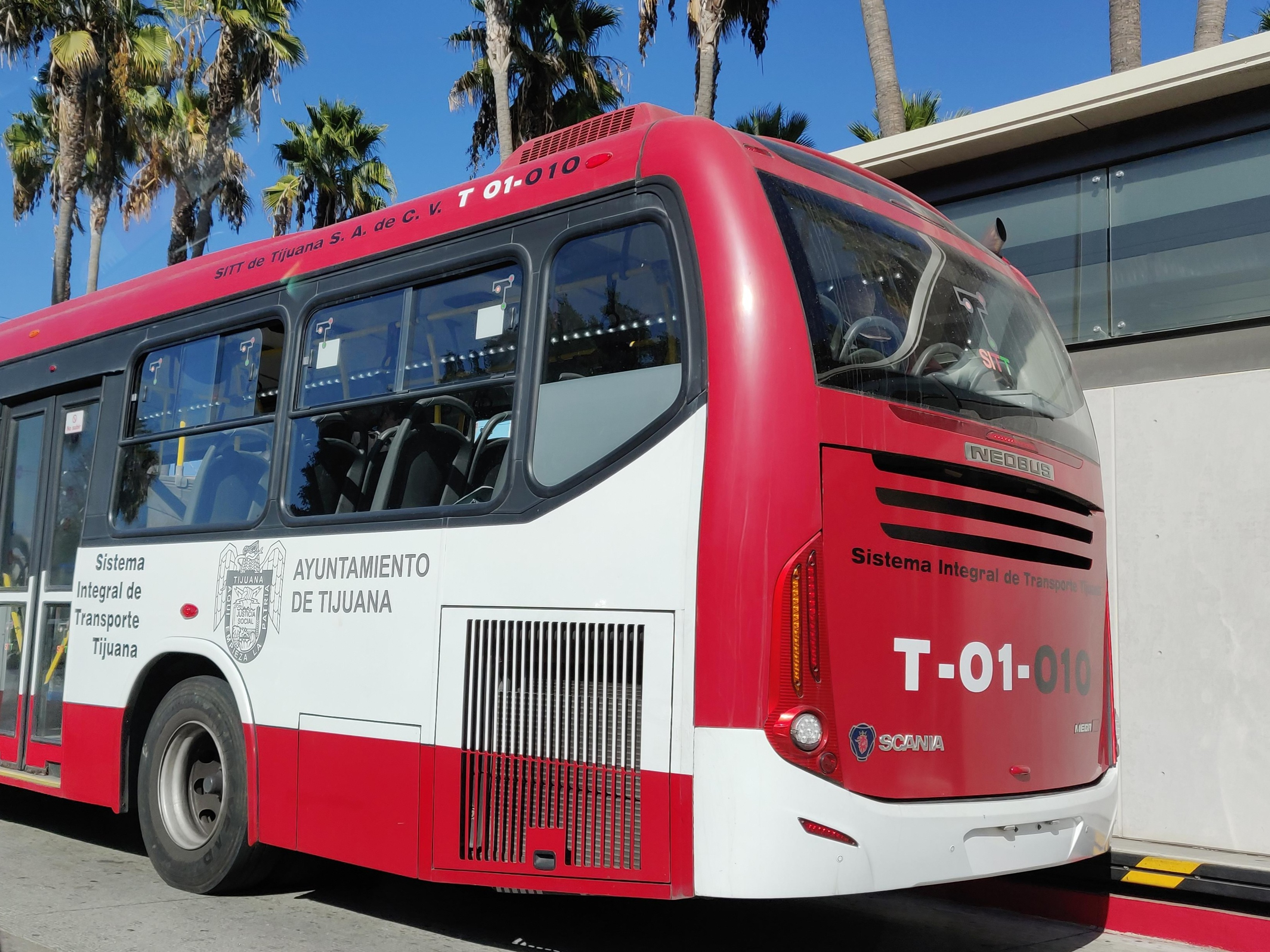 A SITT bus pulls away from the bus stop near Garita San Ysidro.